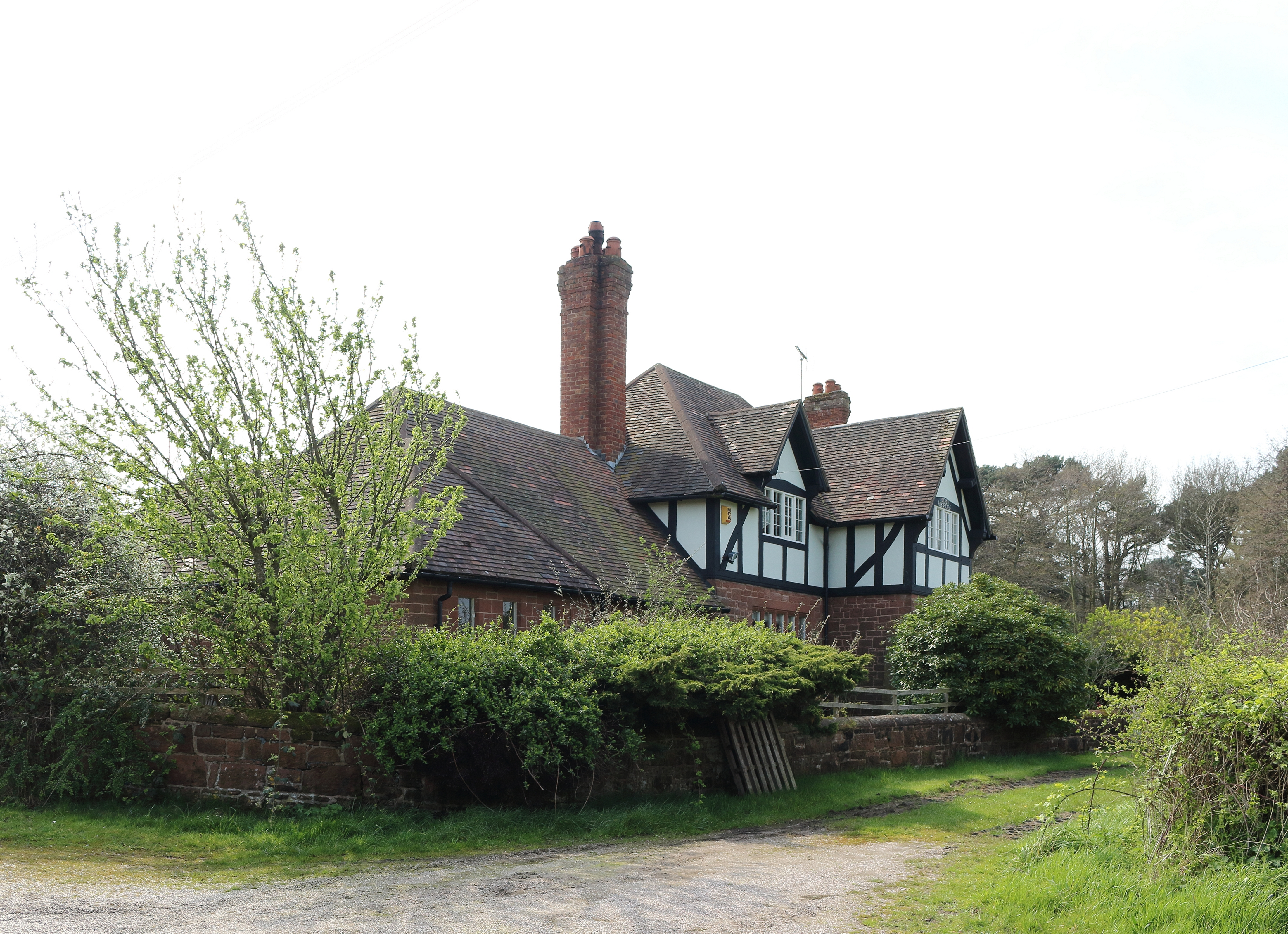 Grade II listed farmhouse dating to 1875, the farm being a model farm for nearby Hill Bark